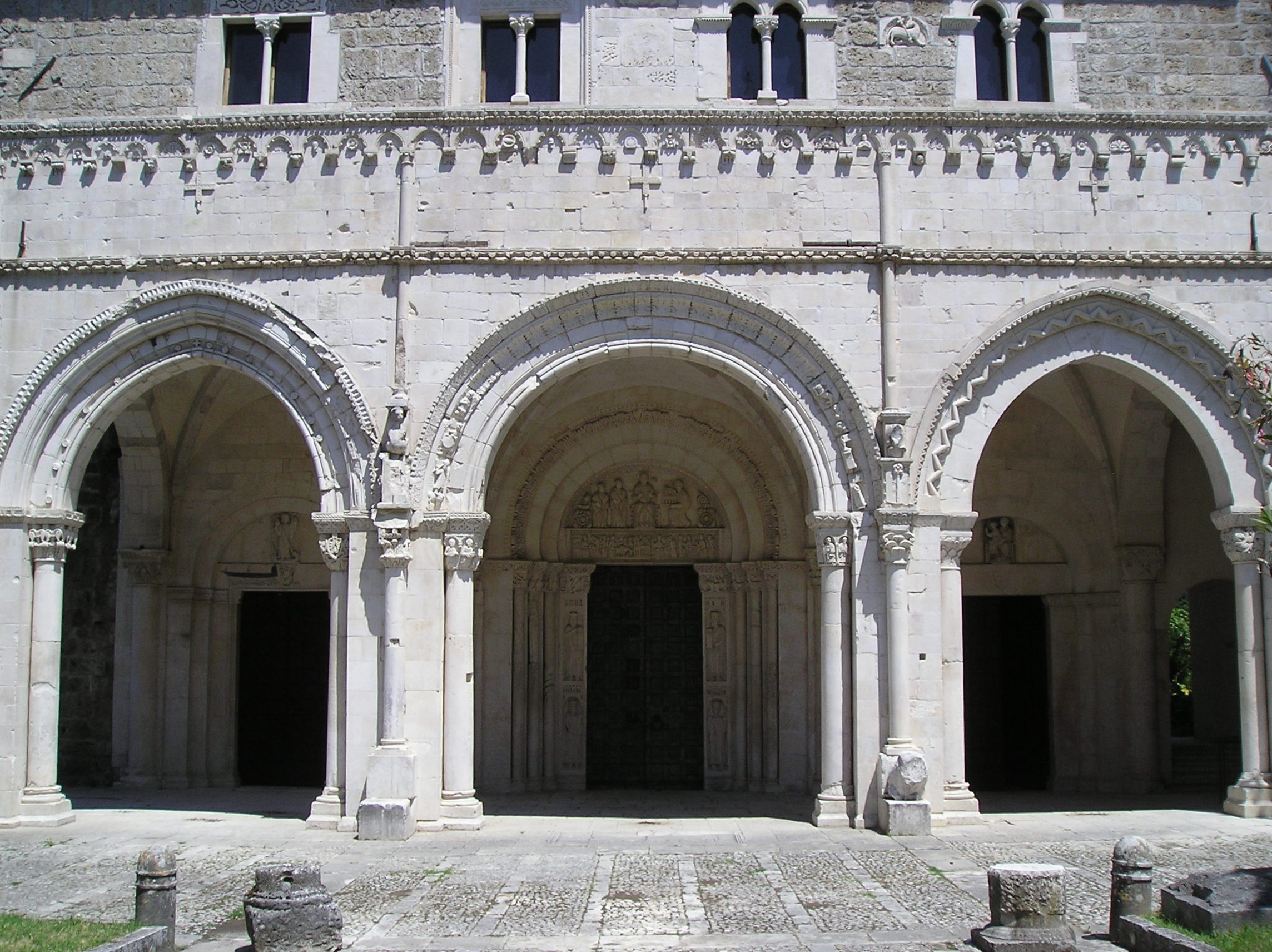 Entrance to the Abbey of San Clemente in Casauria